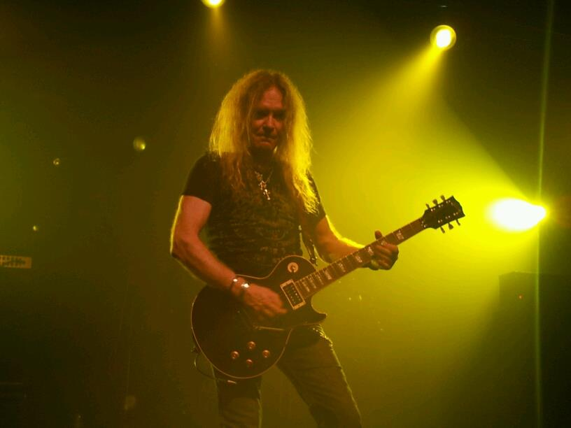 Doug Scarratt performing live at Sheffield O2 Academy 2011